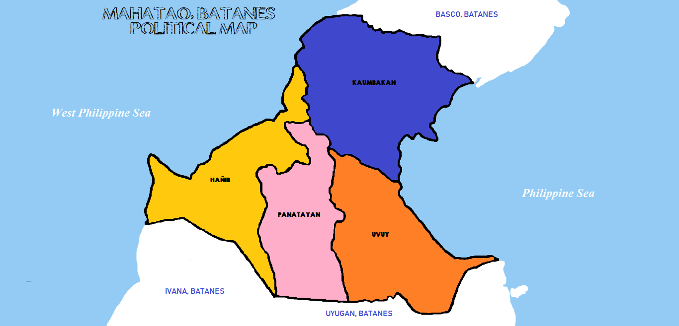 It shows the Barangays in this municipalitiy and the adjacent municipalities in this area.